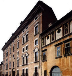 The facade of Palazzo Valenti Gonzaga n Mantova - Italy